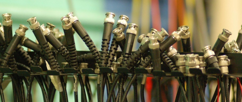 An assortment of cables with BNC connectors.